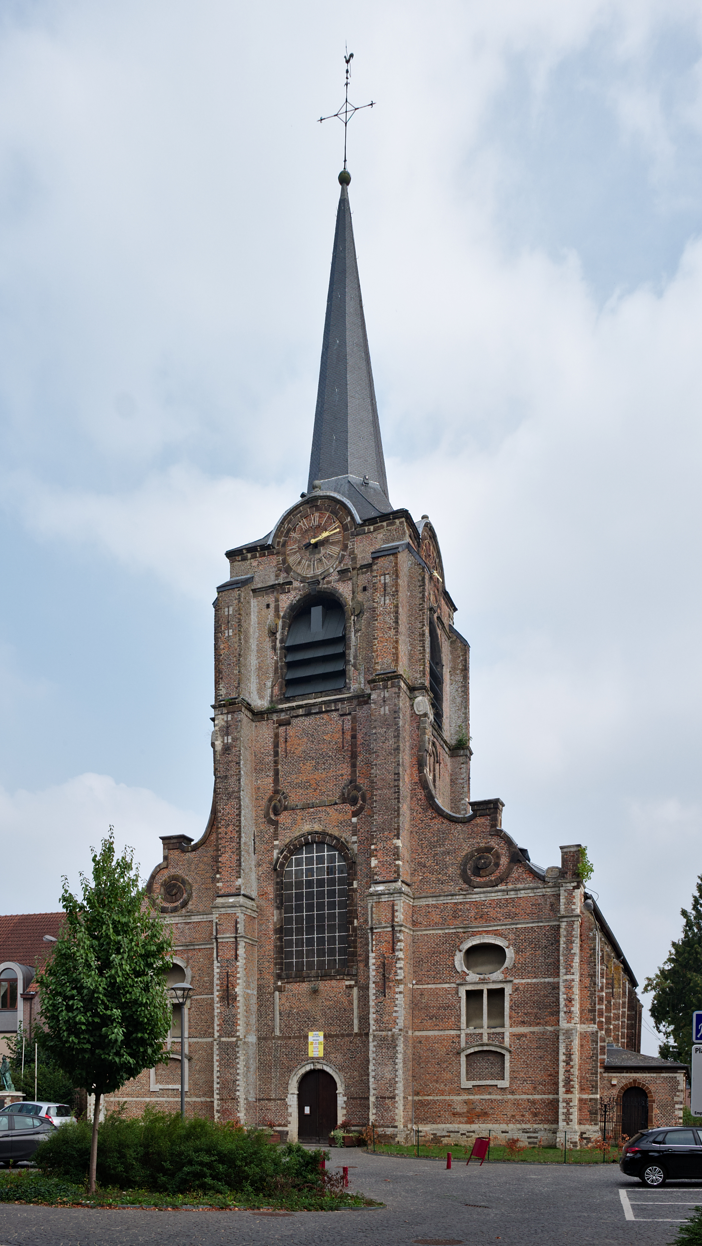 Église Saint-Martin de Limal in Wavre, Belgium